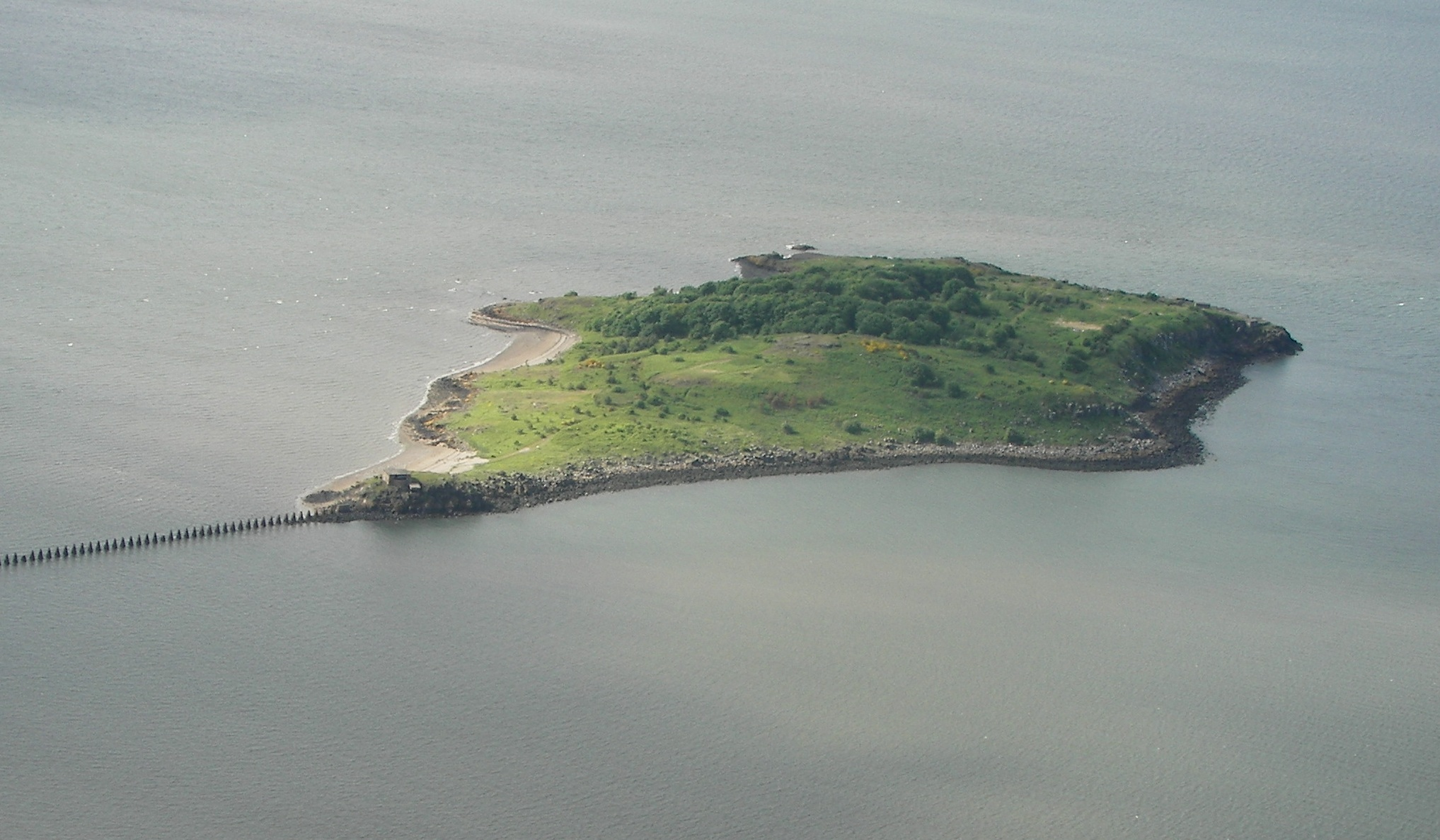 Cramond Island in the Firth of Forth, Scotland. Photo taken from a plane, minutes before landing at Edinburgh Airport.